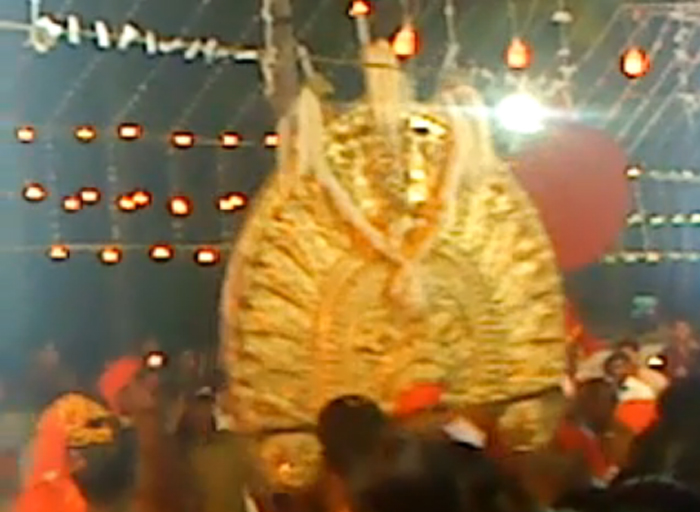 Vellayani Devi Temple